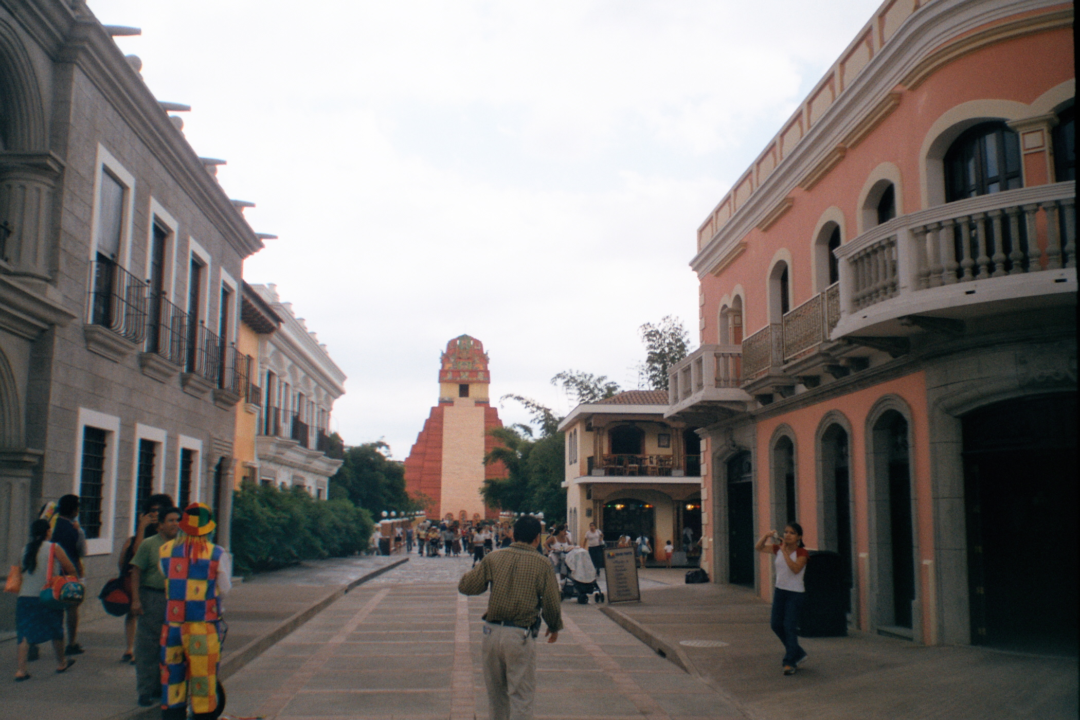 The Xetulul amusement park in San Martín Zapotitlán, Retalhuleu, Guatemala.